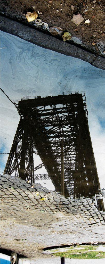 Comuna 04: La Boca